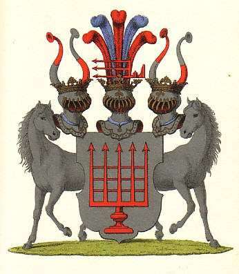 Coat of arms of the Count of Levetzau family